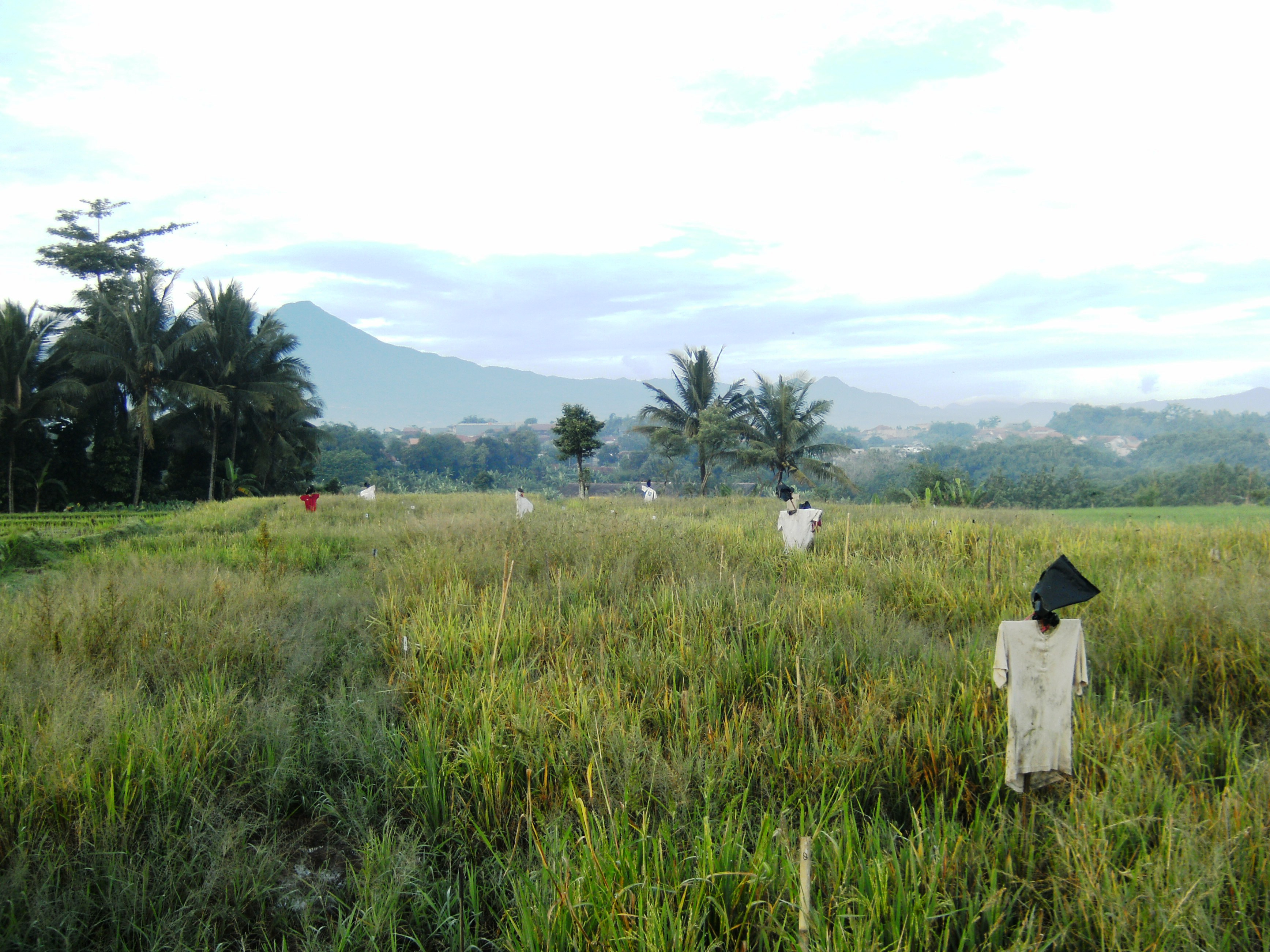 Typical scarecrows in Indonesia